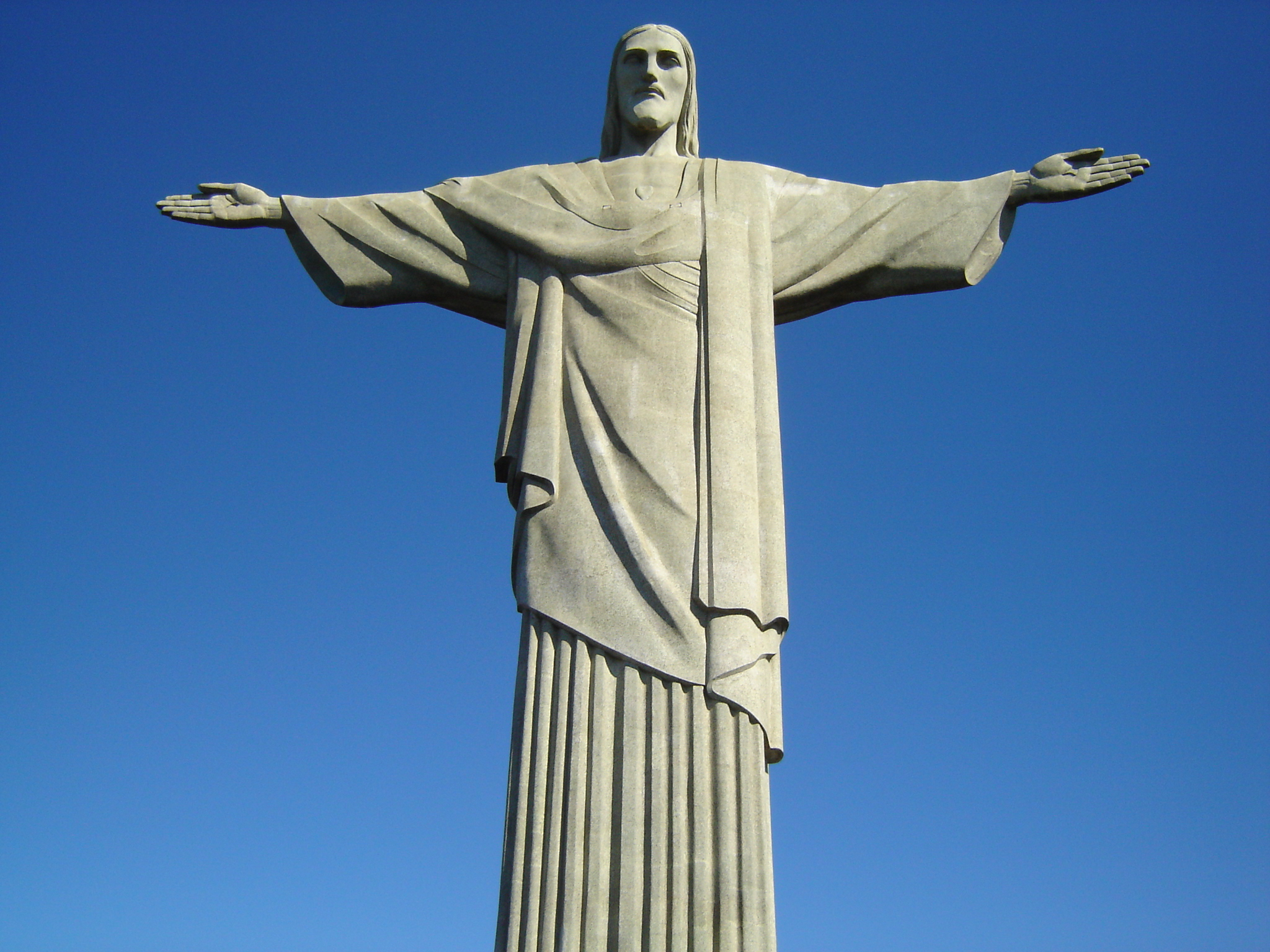 Statue of Christ the Redeemer seen from the Corcovado mountain (one day after it was anounced as one of the New Wonders of the World).